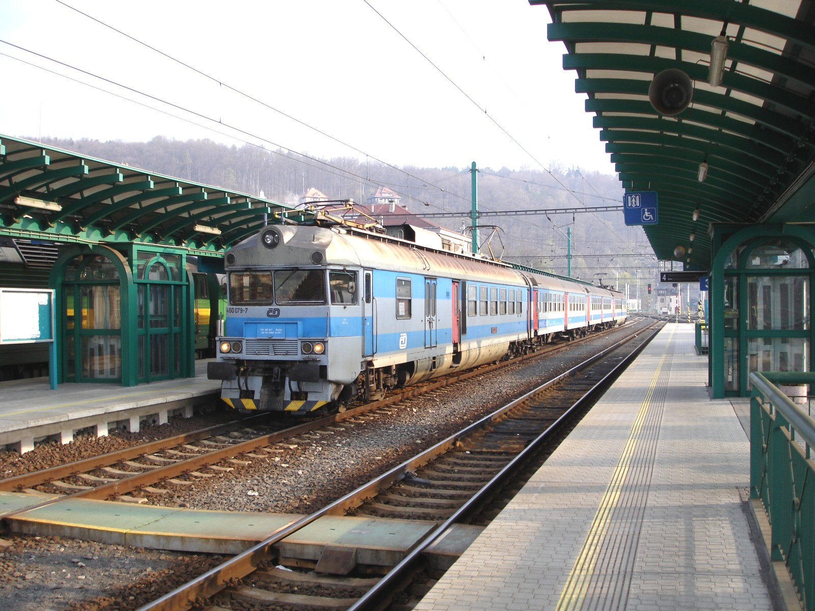 Electric multiple unit ČSD class 460 (ex EM 488.0) in station Děčín, Czech Republic